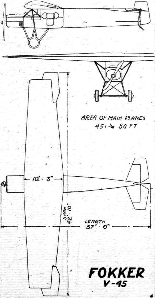 Three-view drawing of Fokker F.II (here referred to by the company designation "V-45").